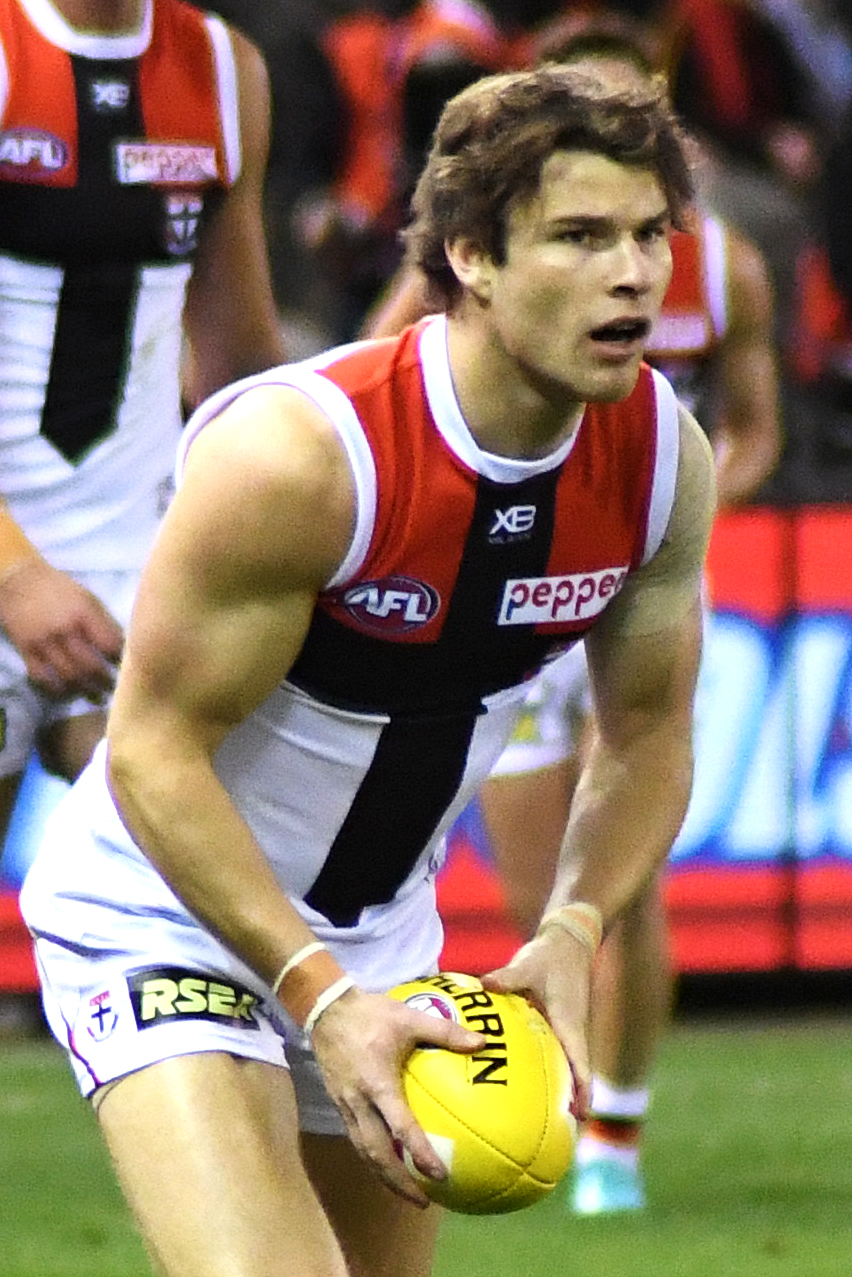 Nathan Freeman of St Kilda during the 2018 AFL round 21 match between Essendon and St Kilda at Etihad Stadium on Friday, 10 August 2018 in Melbourne, Victoria.